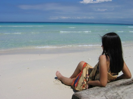 Alano White Beach, Malamawi Is, Isabela City, Basilan - Ei, EugeneZelenko... I took the picture myself AND the girl in the picture is my cousin. I'm releasing it into the public domain. Quit deleting my uploads.: THe Picture is a Property of DOT Region 9, credits goes to Errold L. Bayona, as this was taken under Project Hola Zamboanga Peninsula Website. Thank You. - DOT.